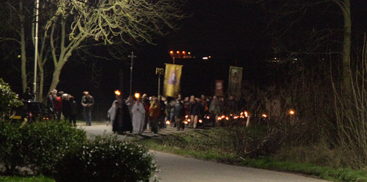 Procession of the diocese of Groningen-Leeuwarden to the shrine of Our Lady of Warfhuizen